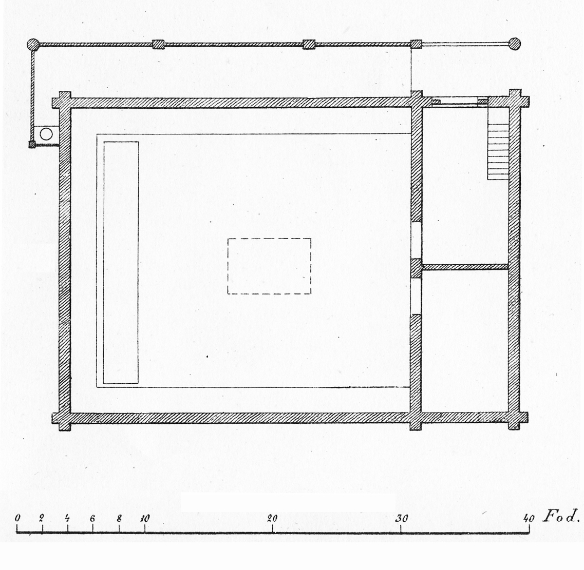 Plan of farmhouse from Rauland, Uvdal, Numedal, Norway, 1238. Now at the Norsk Folkemuseum in Oslo.